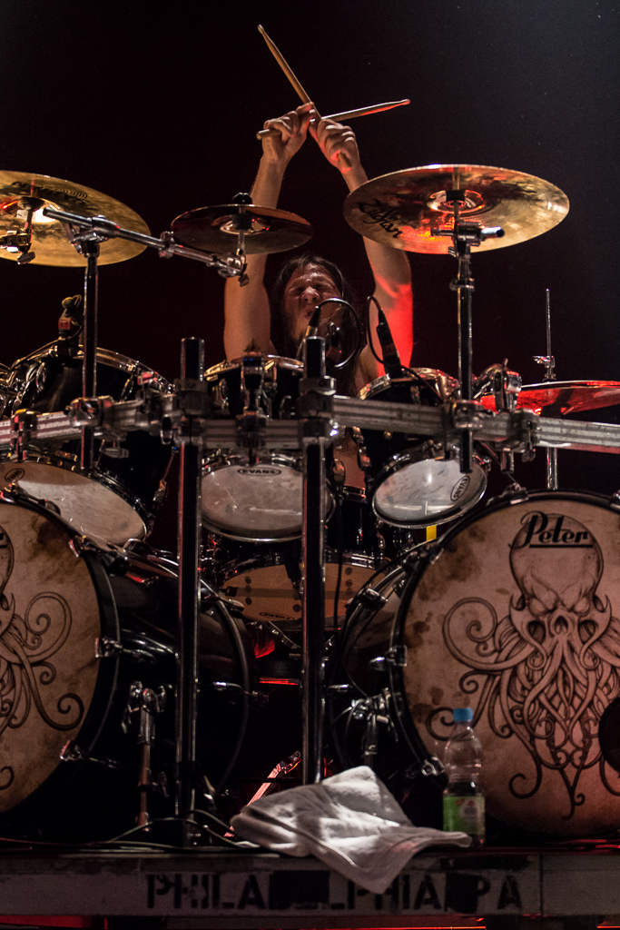 Janne Kusmin, drummer for Kalmah, performing at Paganfest 2013 in Würzburg, Germany.